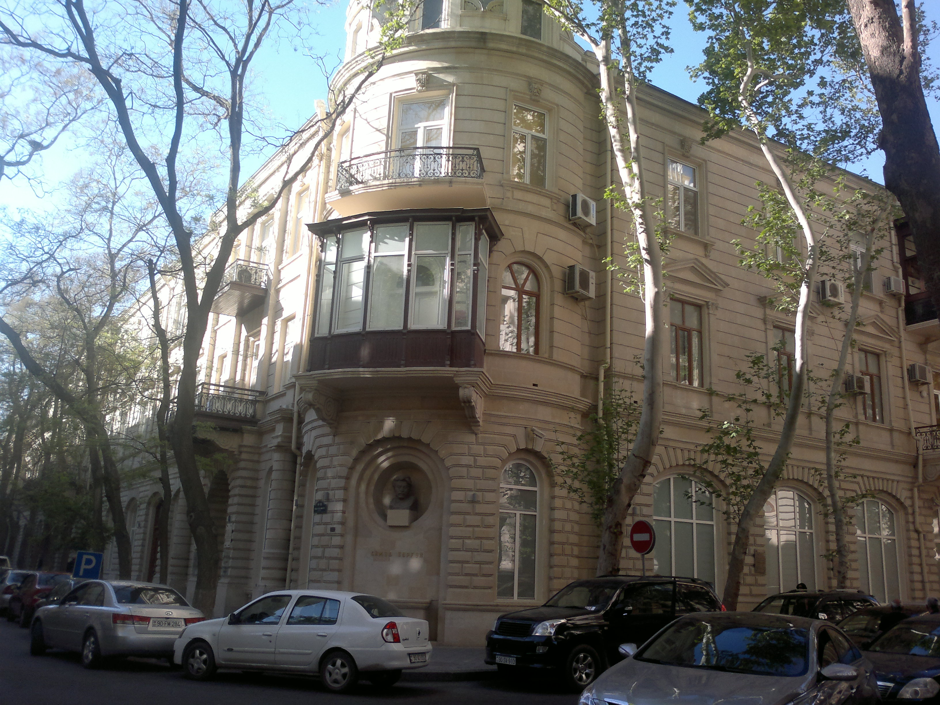 Building on 6 Tarlan Aliyarbayov Street. Built in 1897.